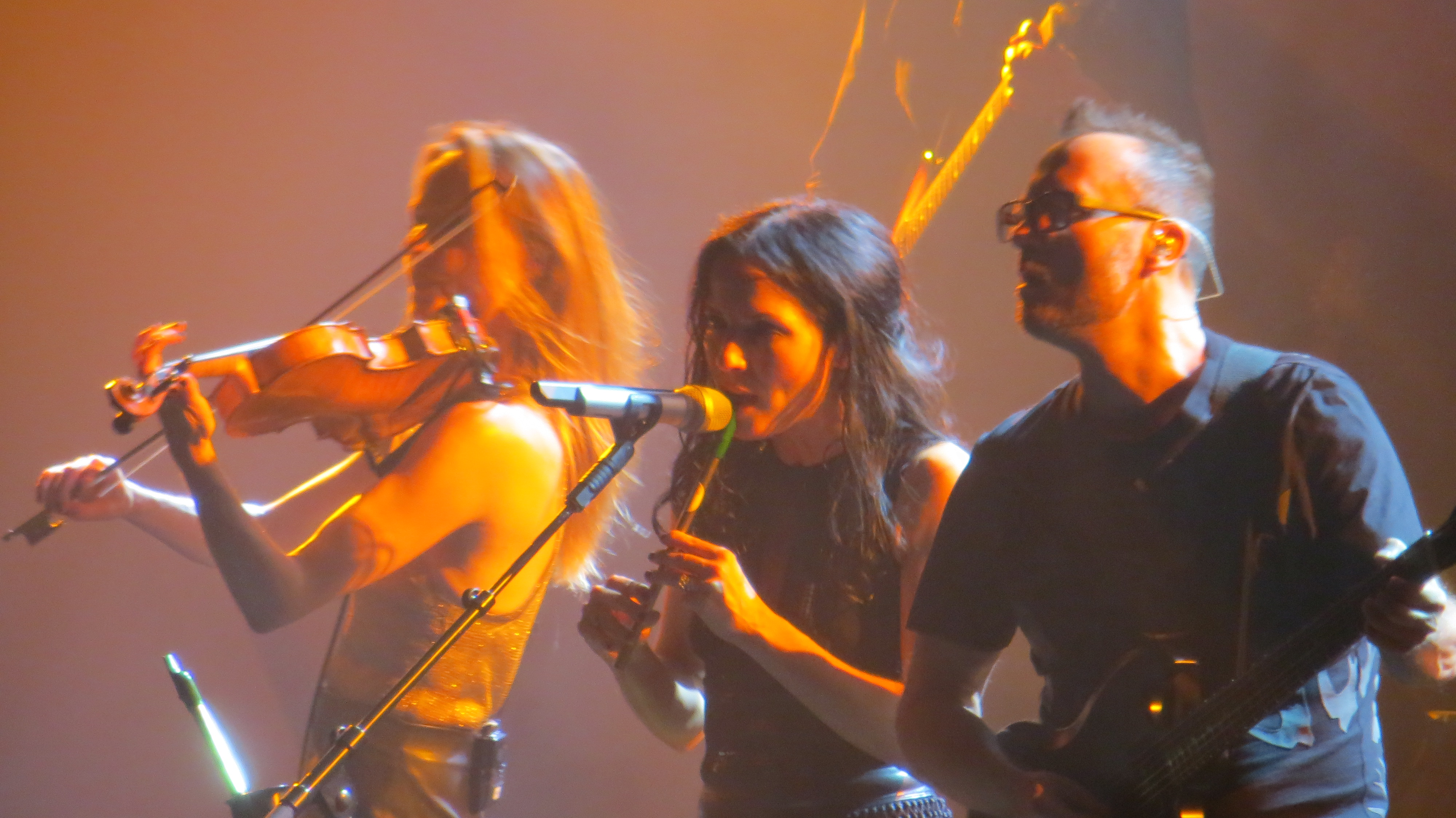 The Corrs in Vienna (Stadthalle, 2016)